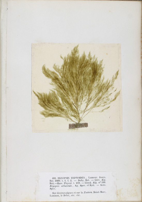 « Bryopsis hypnoides » = Bryopsis hypnoides